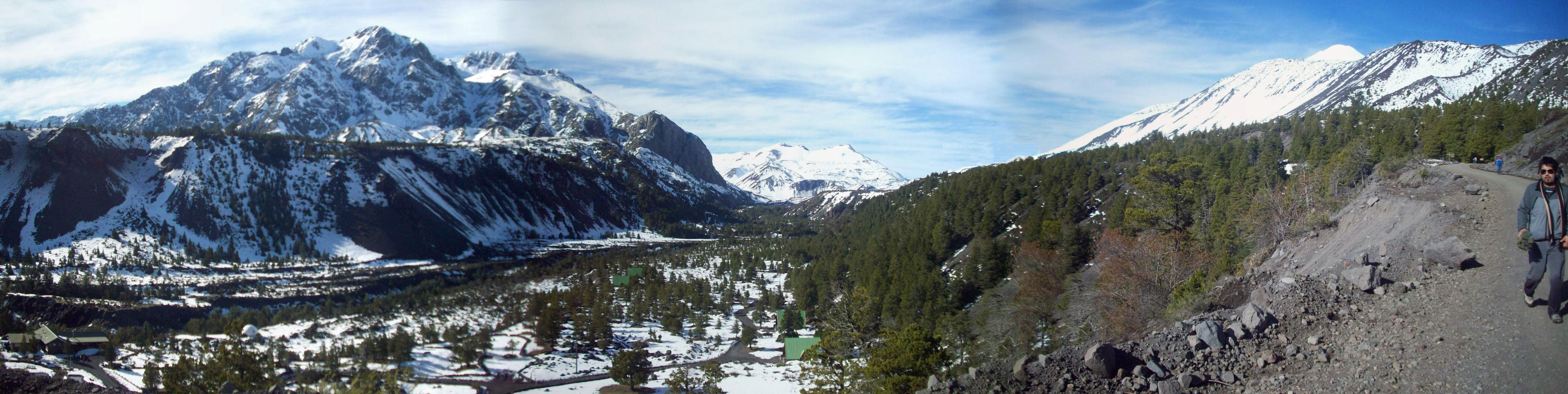 Panorámica del Parque Nacional Laguna del Laja, Chile.